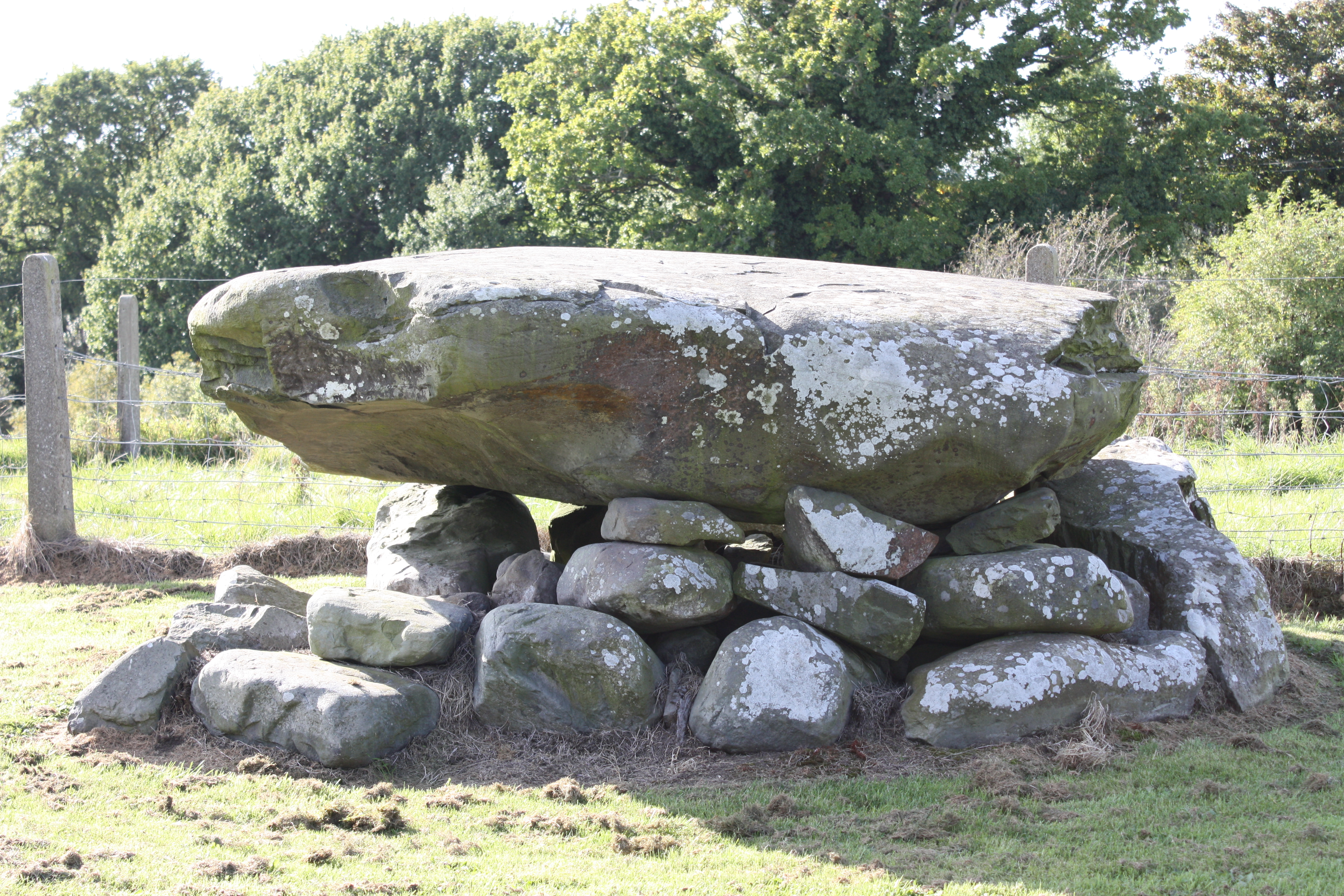 Annadorn Dolmen, Annadorn crossroads, near Loughinisland, County Down, Northern Ireland, October 2009